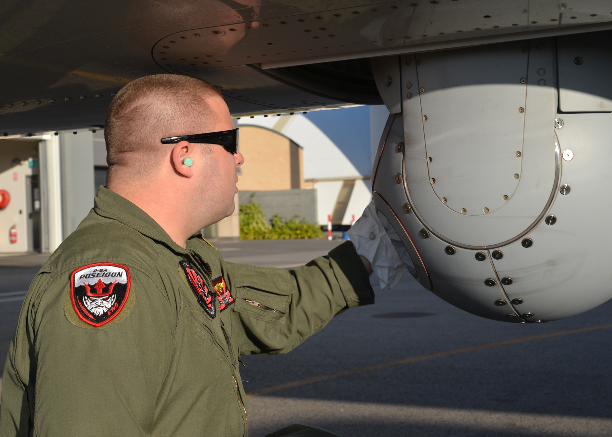 140320-N-XY761-002 PERTH, Australia (March 20, 2014) Naval Aircrewman Operator 2nd Class Mike Burnett, an electronic warfare operator attached to Patrol Squadron (VP) 16, wipes down the camera lens on a P-8A Poseidon before a mission to assist in search and rescue operations for Malaysia Airlines flight MH370 March 20. VP-16 is currently deployed in the U.S. 7th Fleet area of responsibility supporting security and stability in the Indo-Asia-Pacific region. (U.S. Navy photo by Mass Communication Specialist 2nd Class Eric A. Pastor/Released)